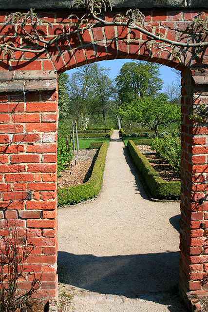 Down the Garden Path Calke Abbey gardens. Will be lovely in a few weeks when the wisteria is in flower.